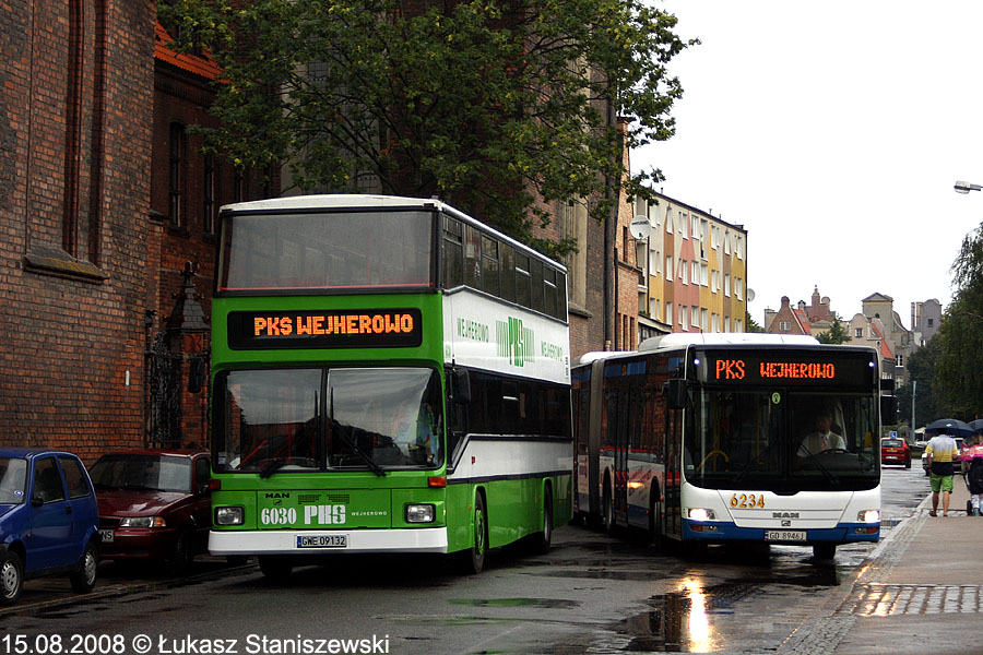 From left to right: MAN SD202 bus (built 1990, #6030), MAN NG313 Lion's City G bus (built 2006, #6234) from PKS Wejherowo in Gdańsk, Rzeźnicka st., Poland.